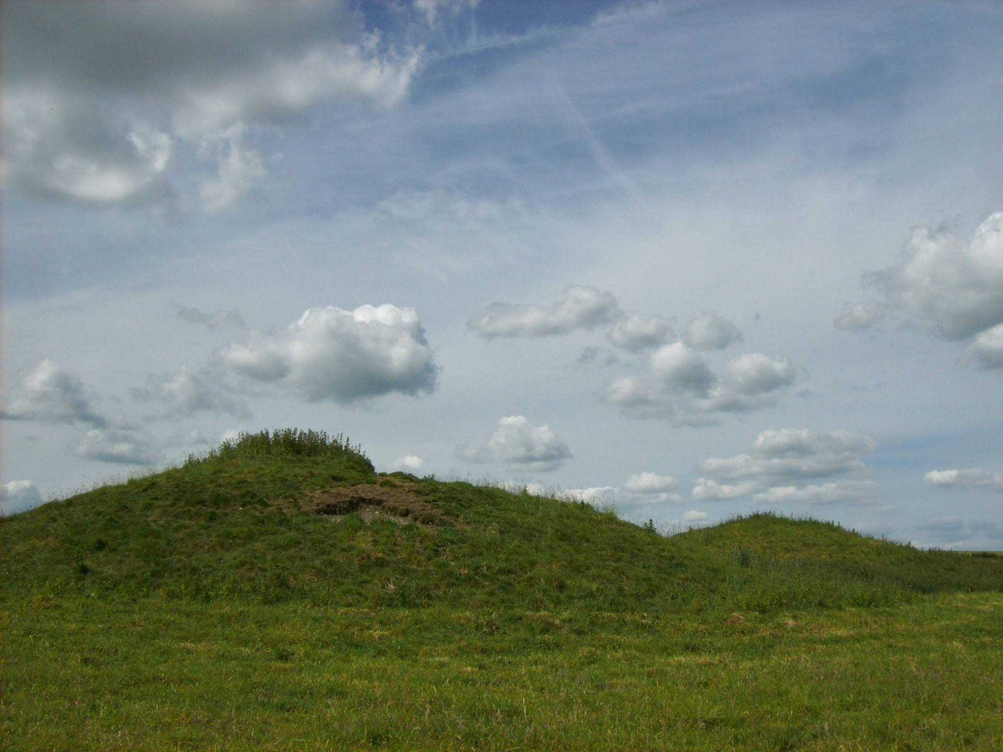 Round barrows, Overton Hill